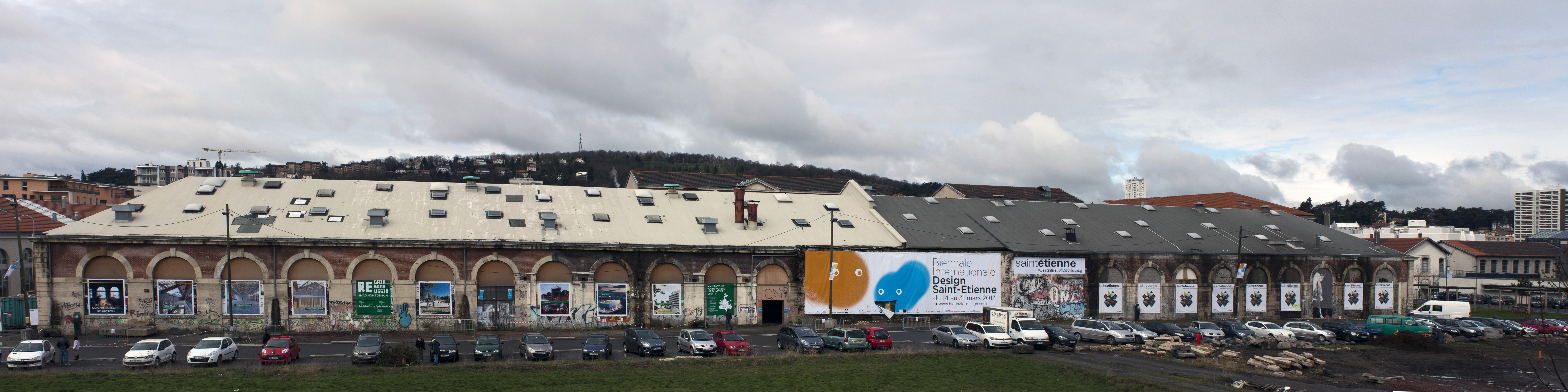 Panoramic view of the workshops of the Manu that house the various workshops of the event.